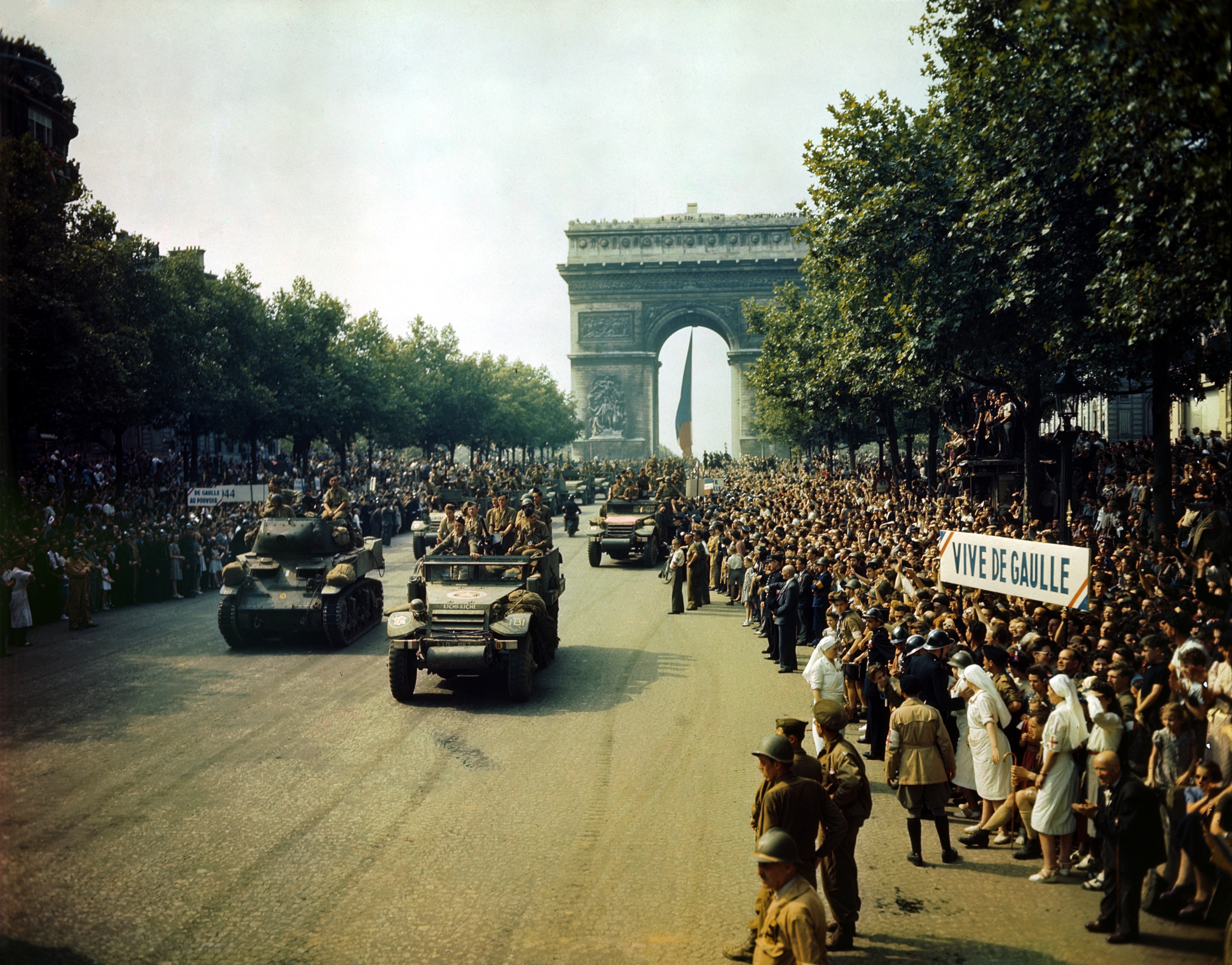 Crowds of French patriots line the Champs Elysees to view Free French tanks and half tracks of General Leclerc's 2nd Armored Division passes through the Arc du Triomphe, after Paris was liberated on August 26, 1944.